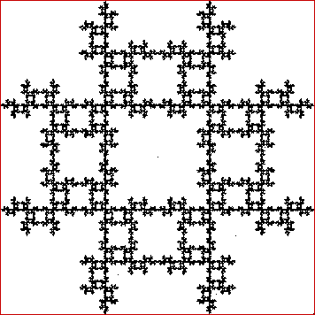 A point inside a square repeatedly jumps half of the distance towards a randomly chosen vertex, but the currently chosen vertex cannot be the same as the previously chosen vertex.